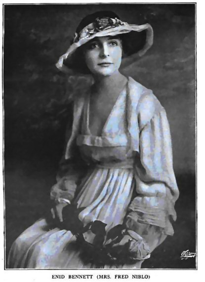 Enid Bennett